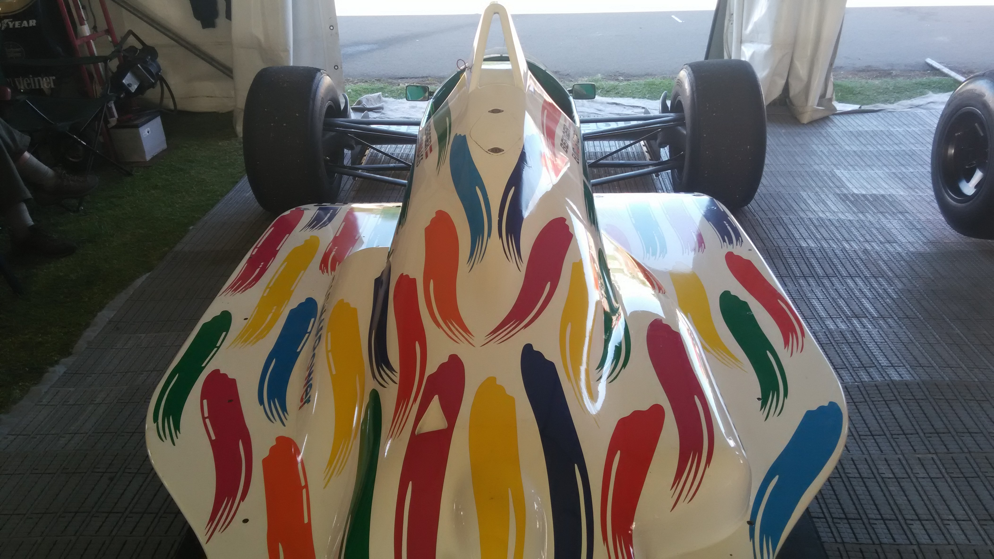 Taken at Adelaide Motorsport Festival 2015